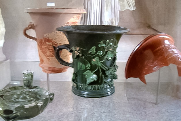 Taken December 2001 in museum in Archaeological Museum of Corinth.